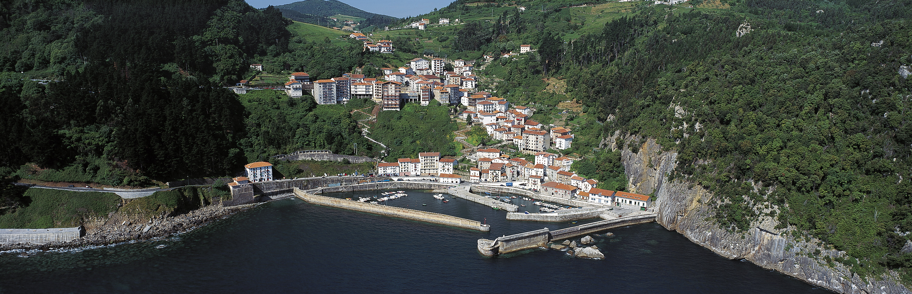 General view of Elantxobe village. Biscay, Basque Country.